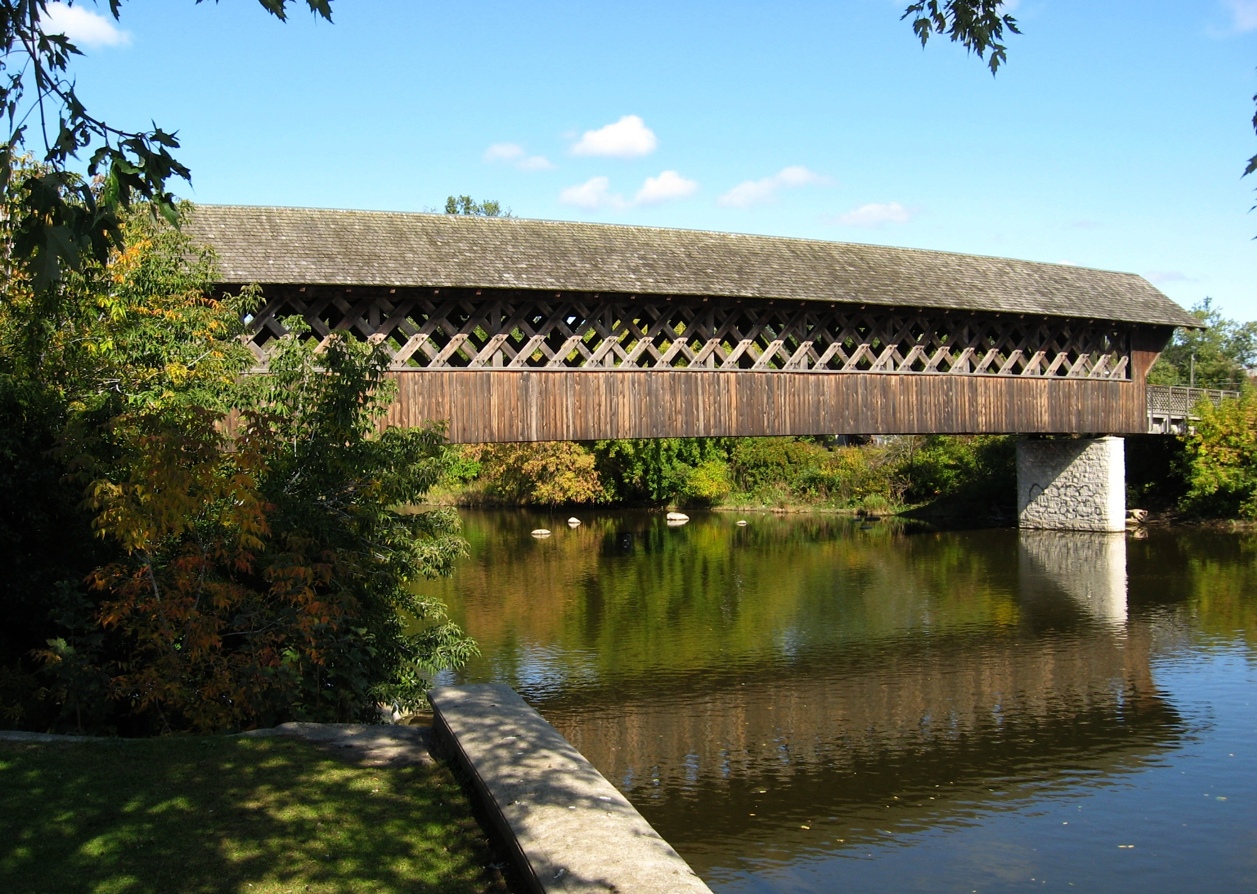 Wooden covered footbridge, Guelph, Ontario